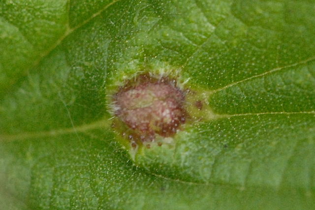 Dasineura urticae from Commanster, Belgian High Ardennes .